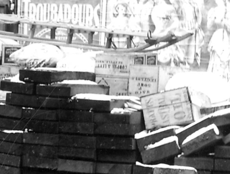 Pile of goods including Pratts Astral Oil outside Cooper & Levy store, 104-106 1st Ave S in the Olympic Block just south of Yesler Way Seattle, late 1897 or early 1898.